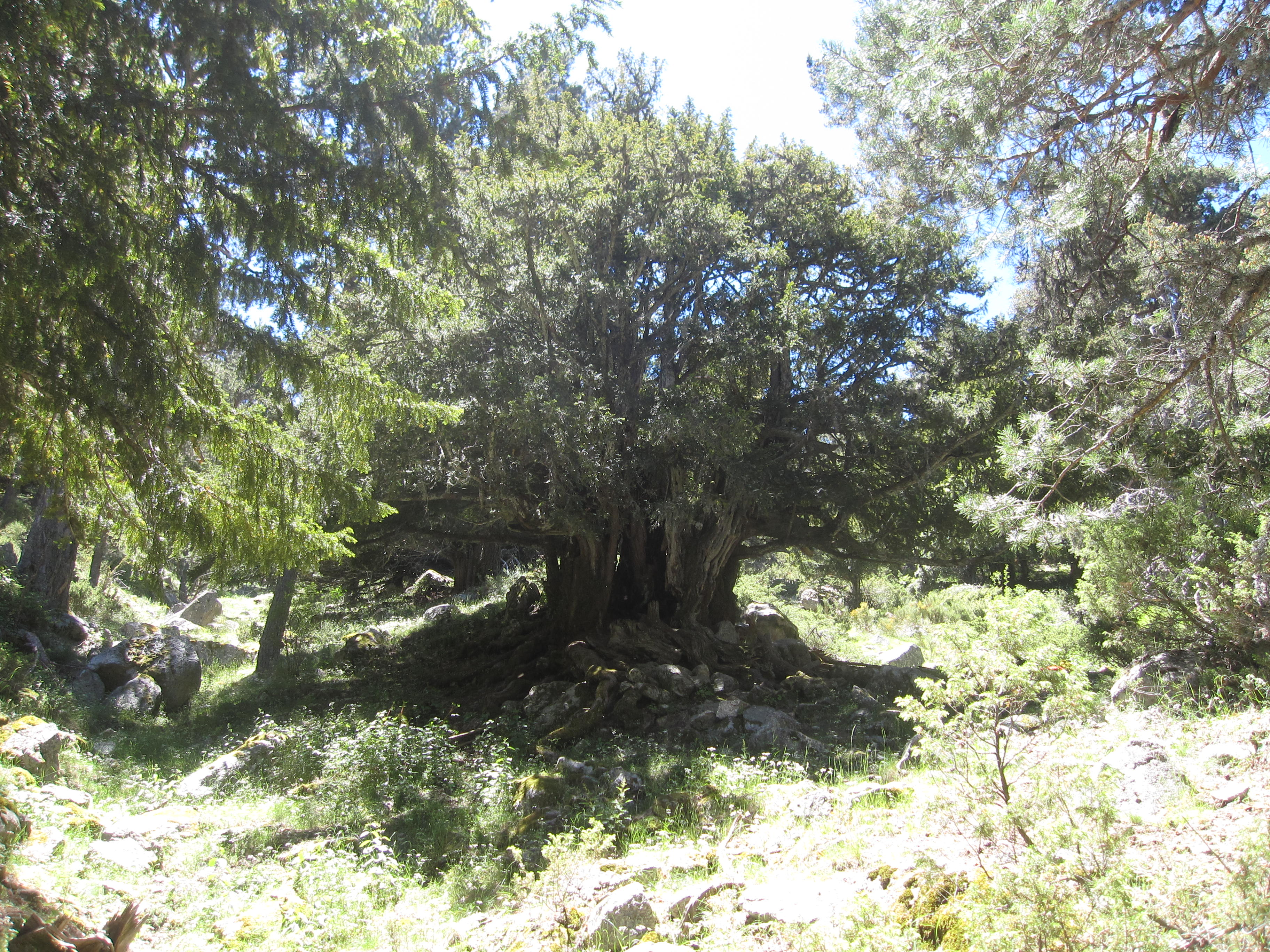 2000-year old taxus called 'Tejo de Barondillo', located in the Guadarrama mountain range, central Spain.